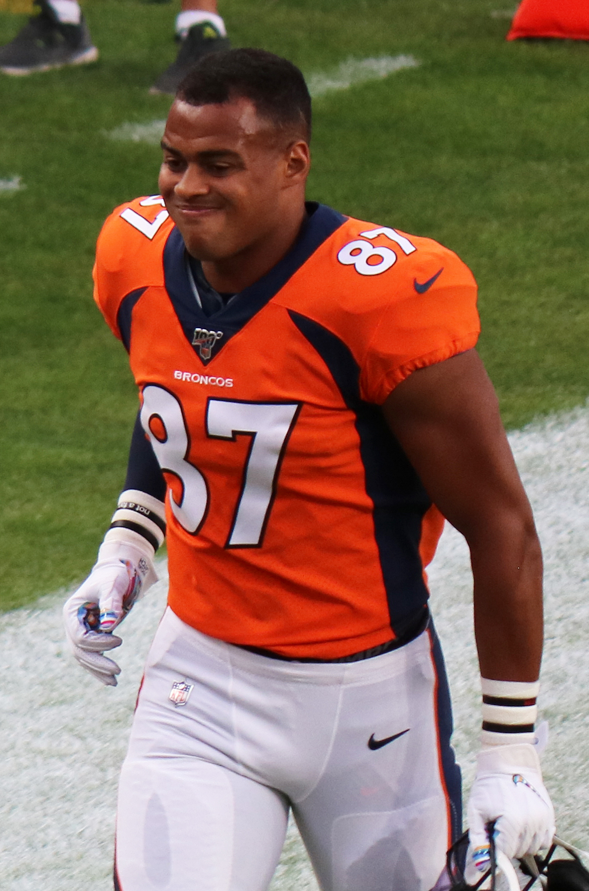 Noah Fant, a National Football League player.